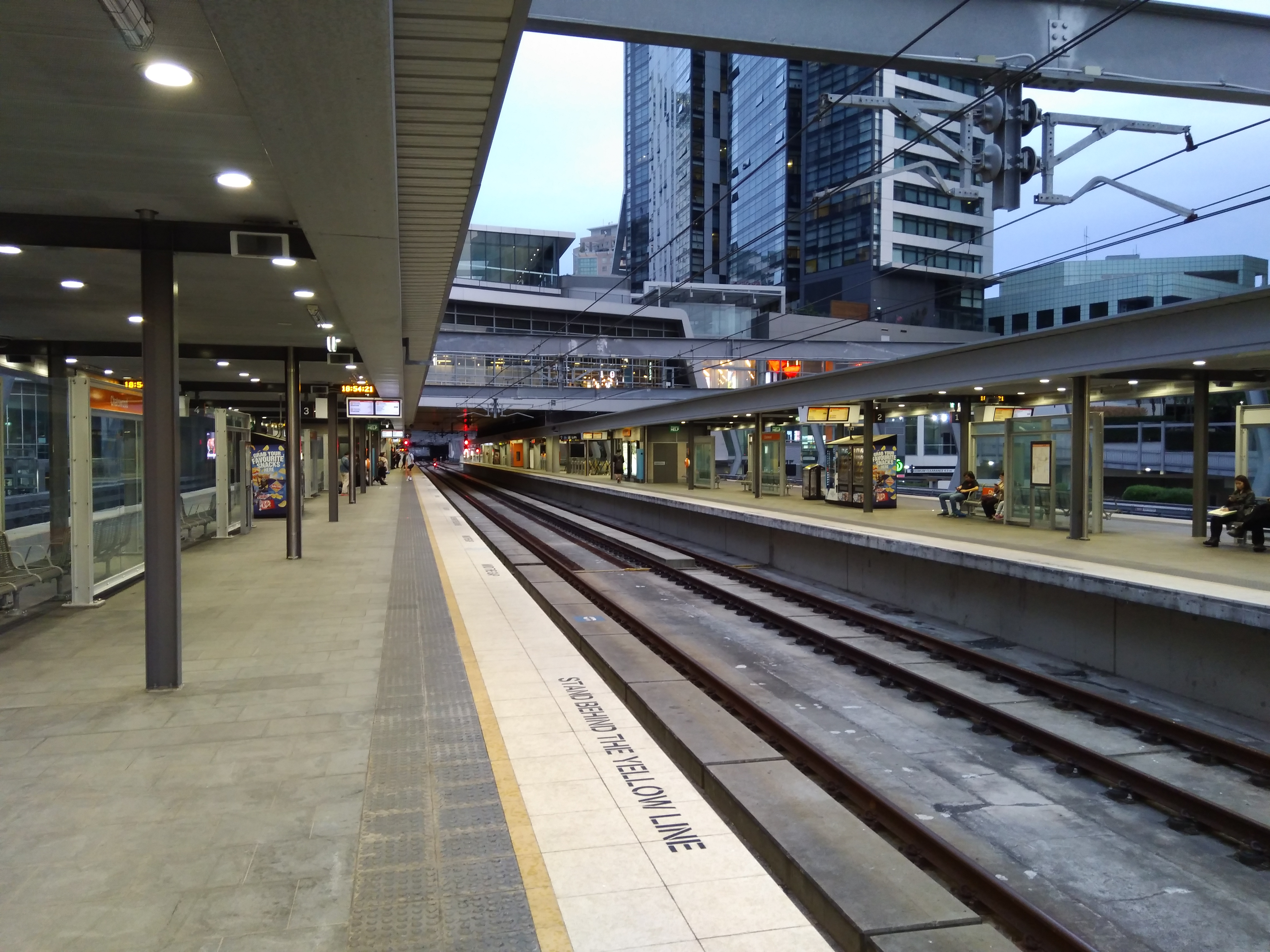 Platforms at Chatswood railway station.